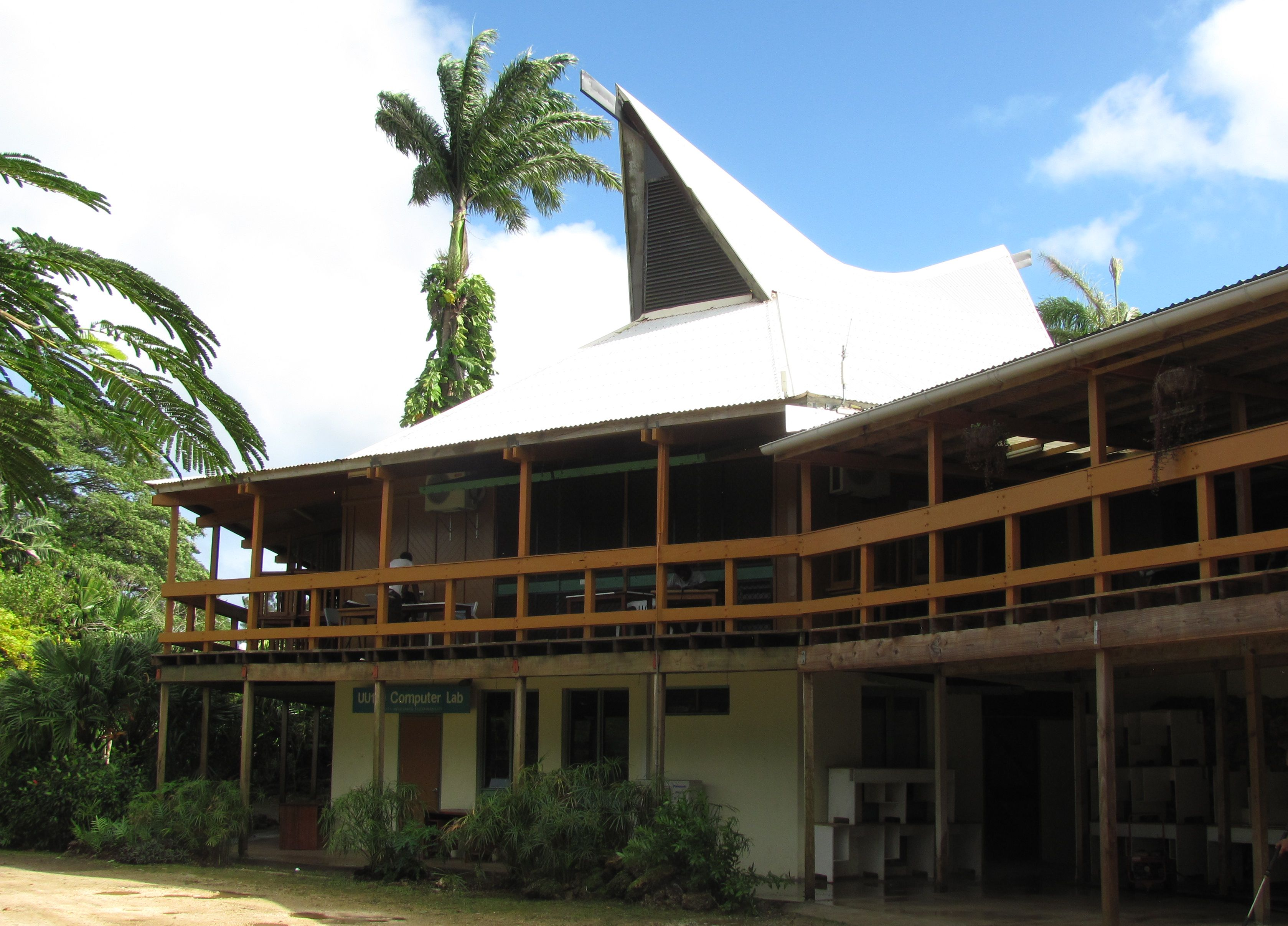 University of the South Pacific, Emalus (Port Vila) Campus, Port Vila, Vanuatu